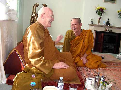 Luang Por Ajahn Sumedho.